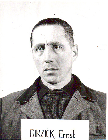 Ernst Gierzick was SS-Obersturmführer and Member of the Reichssicherheitshauptamt (Adolf Eichmann). This photograph of Girzick (probably as a witness) was taken by US Army photographers on behalf of the Office of the U.S. Chief of Counsel for the Prosecution of Axis Criminality (OUSCCPAC, May 1945 - Oct. 1946) or its successor organization, the Office of Chief of Counsel for War Crimes (OCCWC, Oct. 1946 - June 1949).